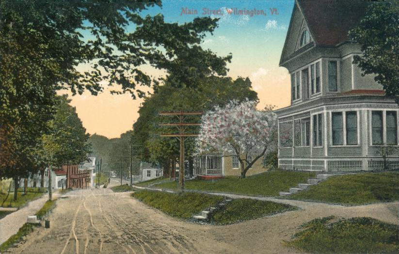 Main Street, Wilmington, VT; from a 1914 postcard.